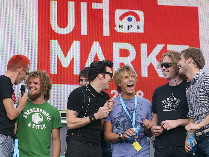 Photo of the popgroup Di-rect during the Uitmarkt